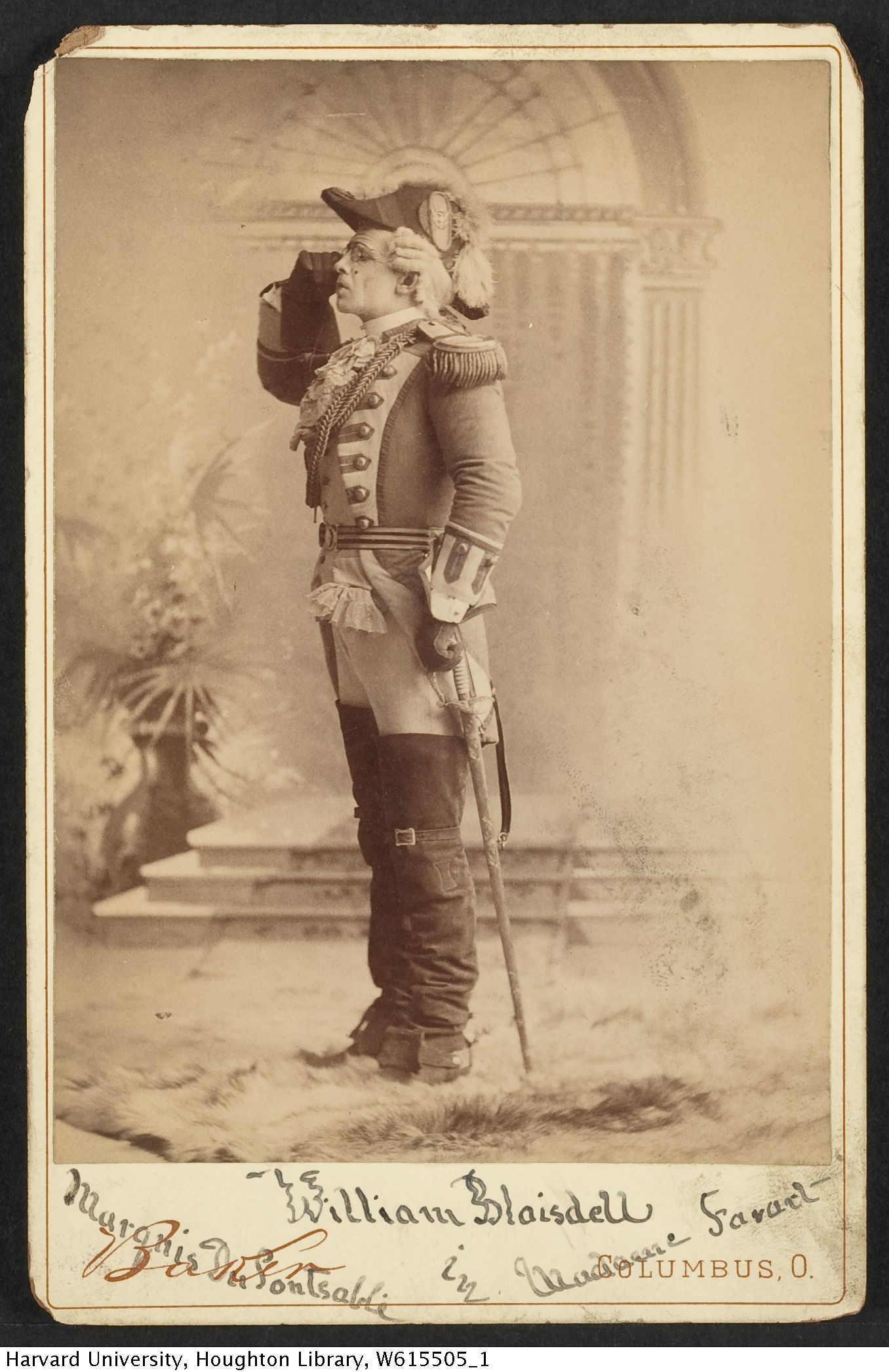 Cabinet card image of actor William Blaisdell (1864-1931). TCS 1.2603, Harvard Theatre Collection, Harvard University